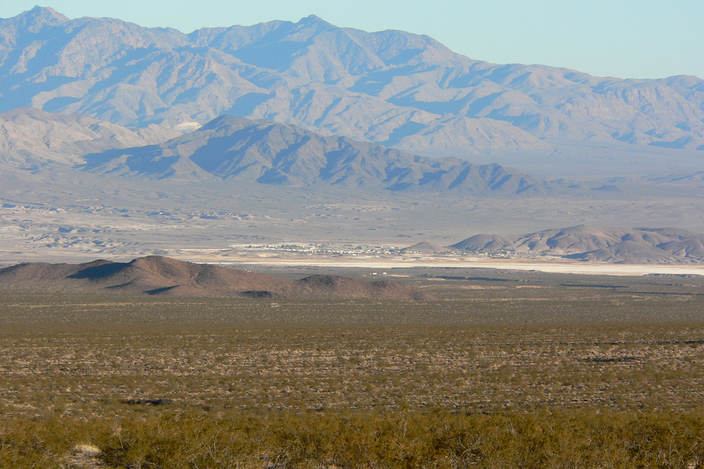 Community of Tecopa, California from Greenwater Valley to the northwest. (Looking southeast towards the Kingston Range.)